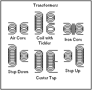 transformer coil diagrams Created by Reddi. Modular replacement { }